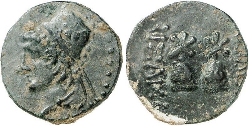 Coin of Arsames II (230 BC), Armenian King of Sophene (source: Y. T. Nercessian «Coinage of the Armenian Kingdom of Sophene. (ca. 260-70 B.C.)» p. 52, image 19b